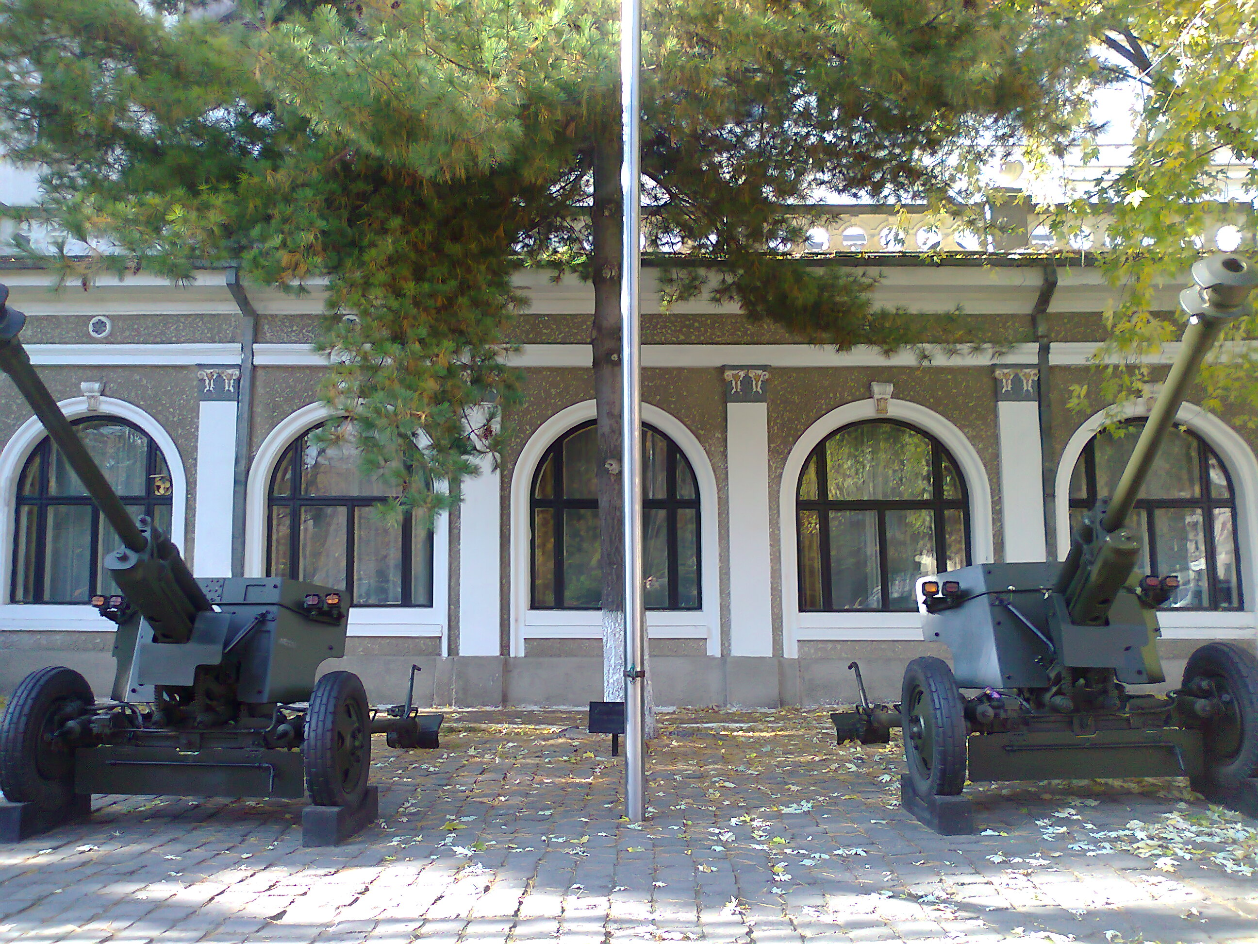 75 mm Reșița Model 1943 anti-tank cannons in Libertății Square, Timișoara, Romania